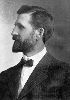 Photo of American mycologist William Murrill